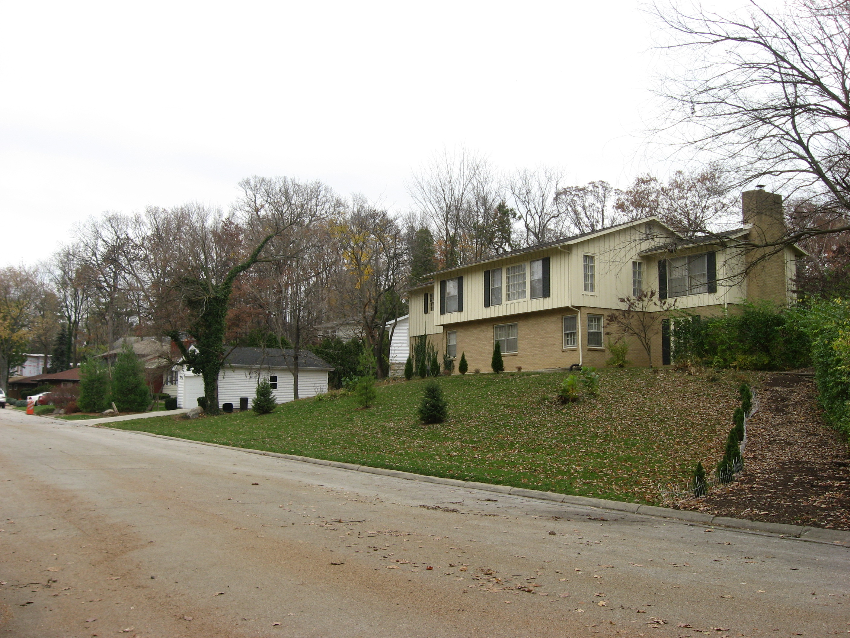 Houses on the eastern side of the southernmost block of Woodland Avenue in West Lafayette, Indiana, United States. This area is part of the Hills and Dales Historic District, a historic district that is listed on the National Register of Historic Places.